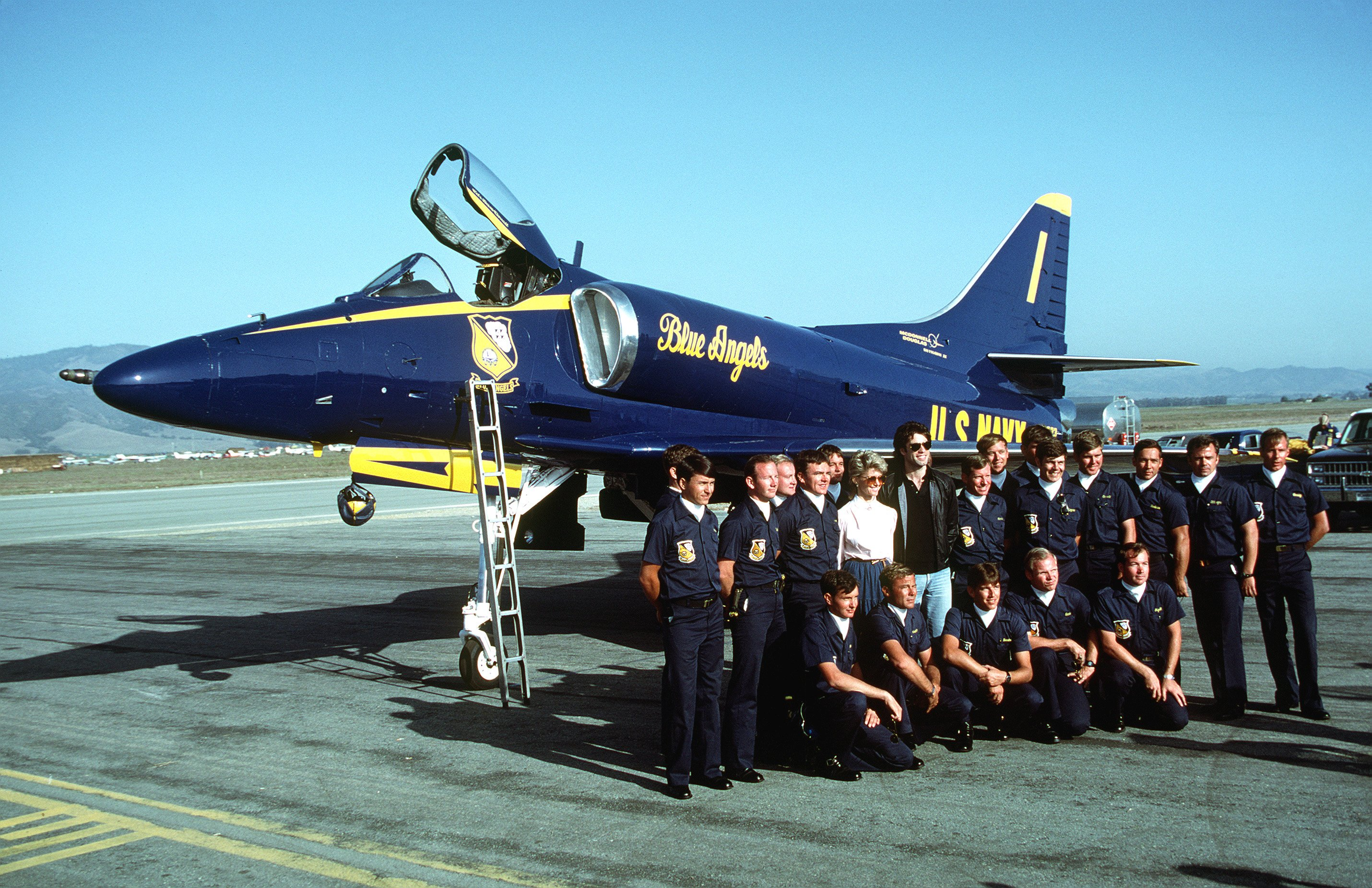 ID: DNST8301252 Service Depicted: Navy Entertainers John Travolta and Olivia Newton-John, center, along with enlisted crew of the Navy's Blue Angels flight demonstration team pose in front of an A-4F Skyhawk aircraft parked on the apron. The Blue Angels performed during a local air show. Location: SALINAS, CALIFORNIA (CA) UNITED STATES OF AMERICA (USA) Camera Operator: PH3 CURT FARGO Date Shot: 3 Oct 1982